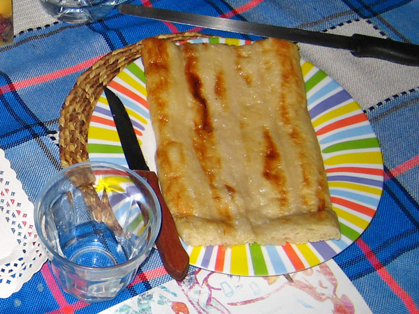 aniseed coca (catalan desert).